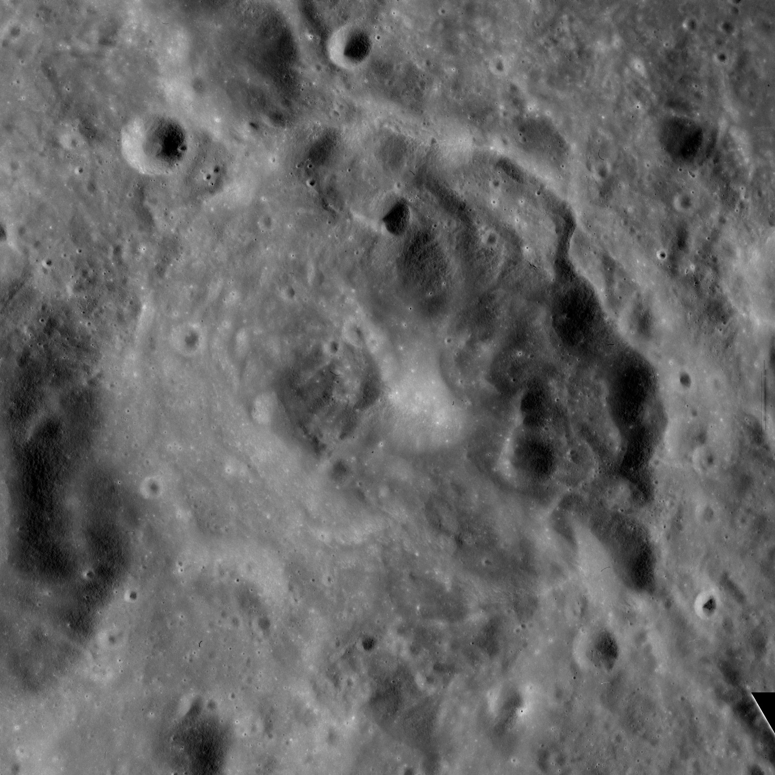 Capella crater, on the moon.